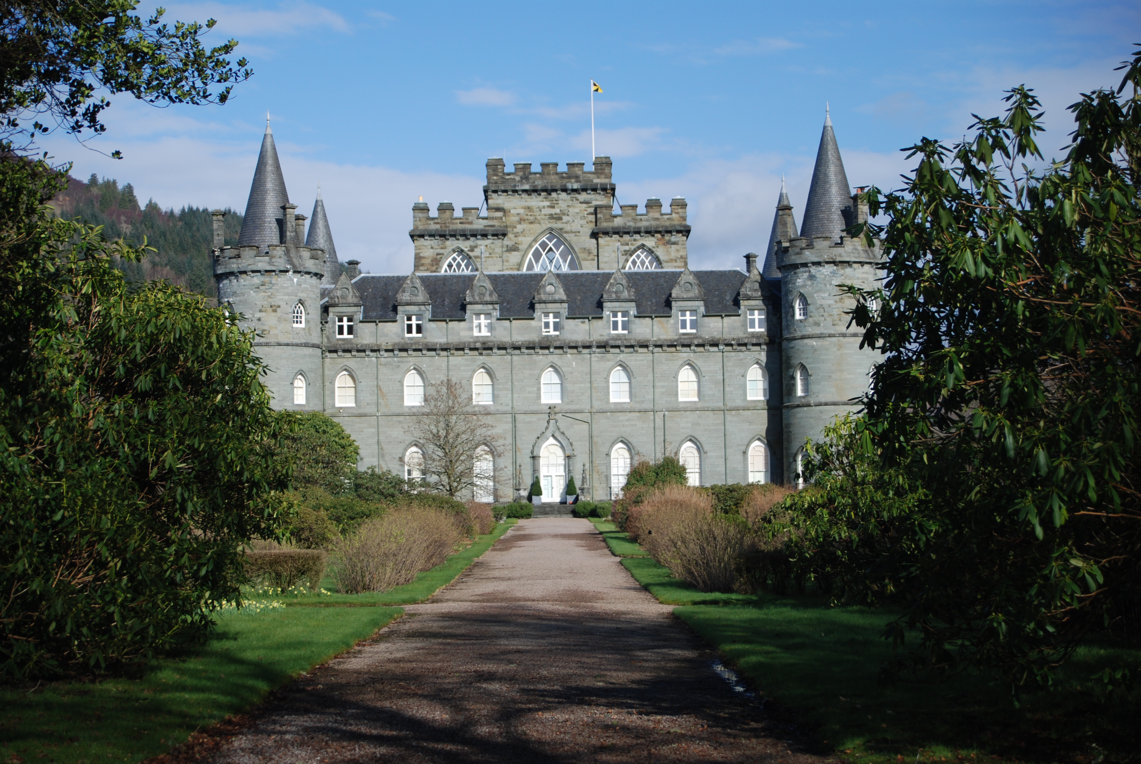 Inveraray Castle, view from castle garden